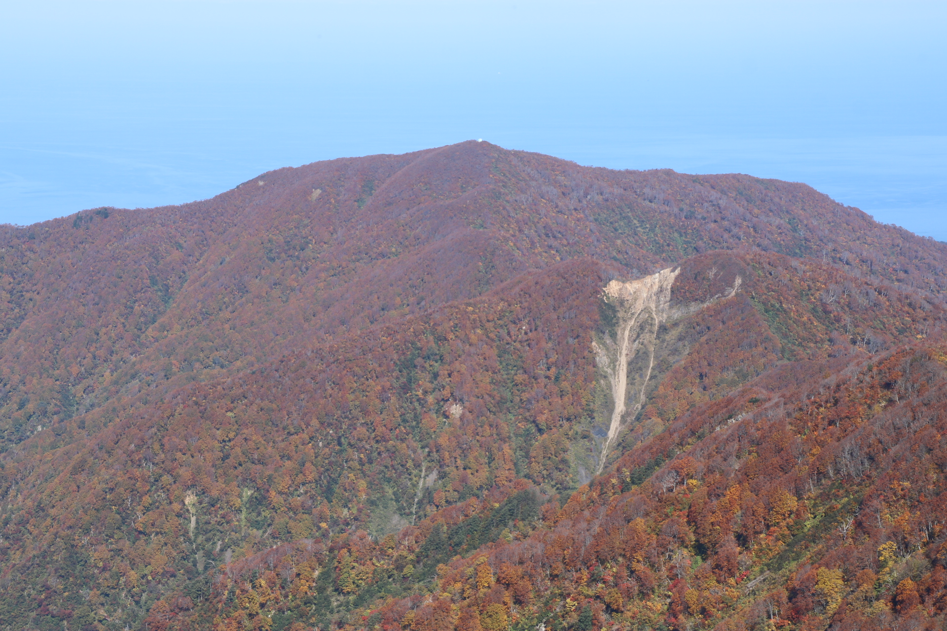 Mount Shiratori seen from the south. Taken from the Mount Inu.